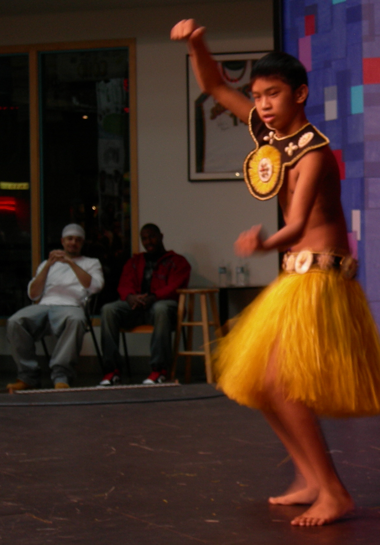 Young male dancer from hula hālau Ke Liko A`e O Lei Lehua performs at Center House, Seattle Center, as part of Festál's API (Asian Pacific Islander) Heritage Month Festival. The pictures of this event have generally undergone slight enhancement (sharpening, color adjustments) with Picture Publisher.